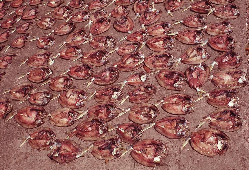 Dried fish of Ethmalosa fimbriata, taken in Bissau by the uploader